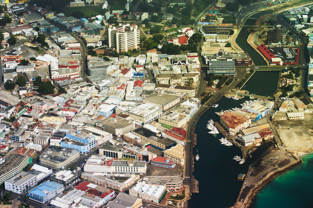 Aerial view of Bridgetown, Barbados in the West Indies (facing east), with clear view of the Wharf, the main bus terminal, the Central Bank and other buildings and the associated streets